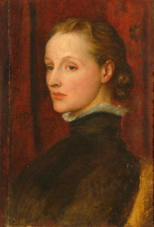 portrait of Mary Fraser Tytler, afterwards Mary Seton Watts, 1849-1938